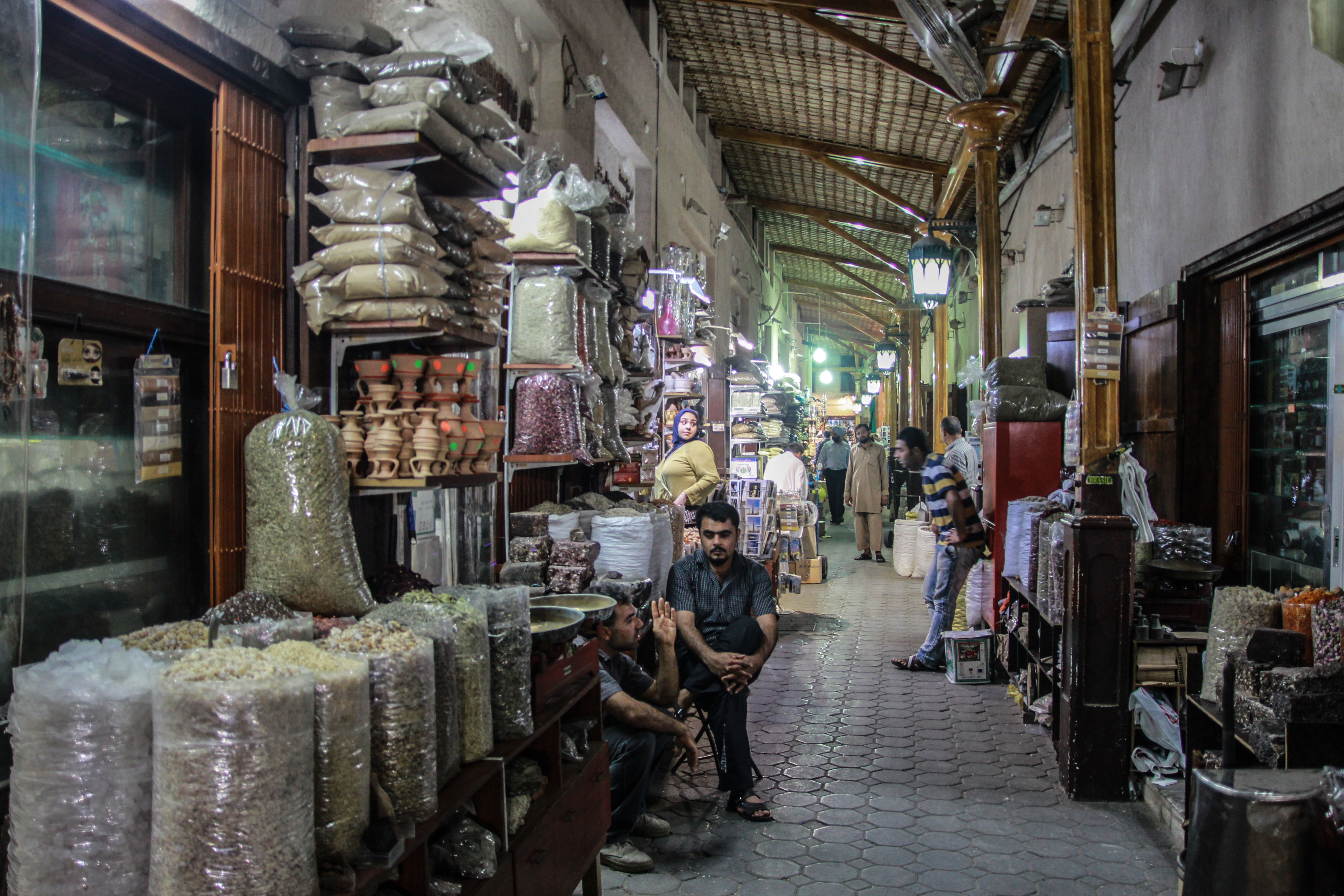 Souk in Dubai